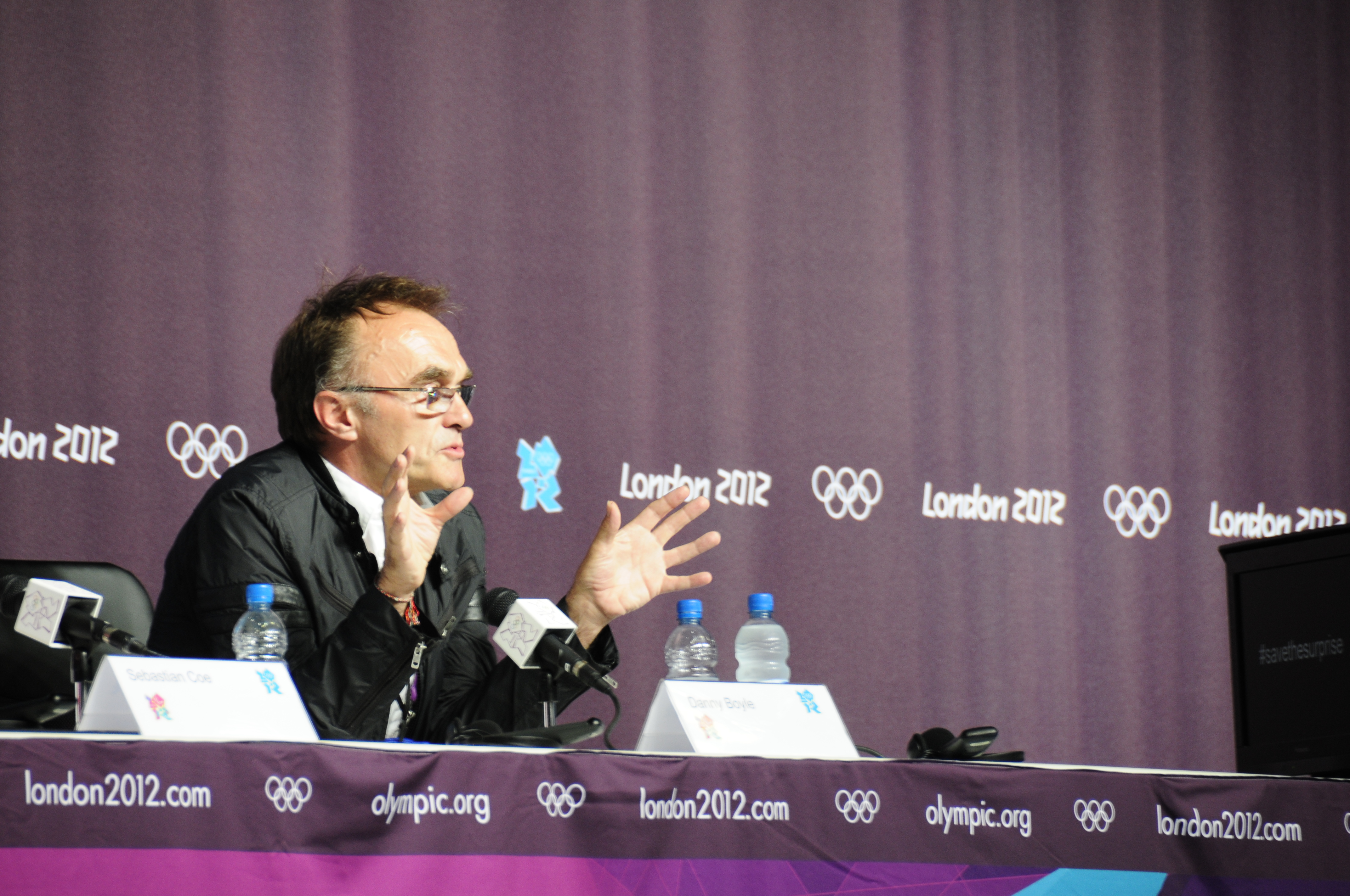 Danny talks about tonight's ceremony (2012 Summer Olympics opening ceremony)